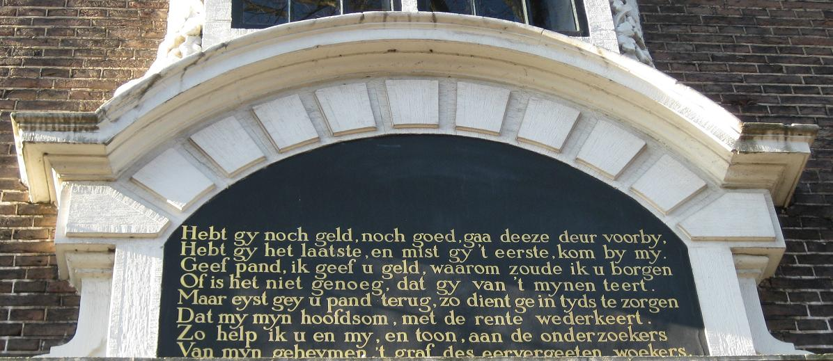 Text written by Balthazar Huydecoper in 1740 above the doorway to the Stadsbank van Lening in Amsterdam, Oude Zijds Voorburgwal 300."If you have neither money nor goods, walk on by/If you have the last and miss the first, come to me..." Hebt gy noch geld, noch goed: gaa deze deur voorby. Hebt gy 't laatste, en mist gy 't eerste, kom by my. Geef pand, ik geef u geld. waarom zoude ik u borgen? Of is 't u niet genoeg dat gy van 't mynen teert? Maart eyst gey u pand terug, zo dient ge in tyds te zorgen, Dat my myn hoofdsom, met de rente wederkeert. Zo help ik u en my, en toon, aan de onderzoekers Van myn geheymen, 't graf des eervergeeten woekers.